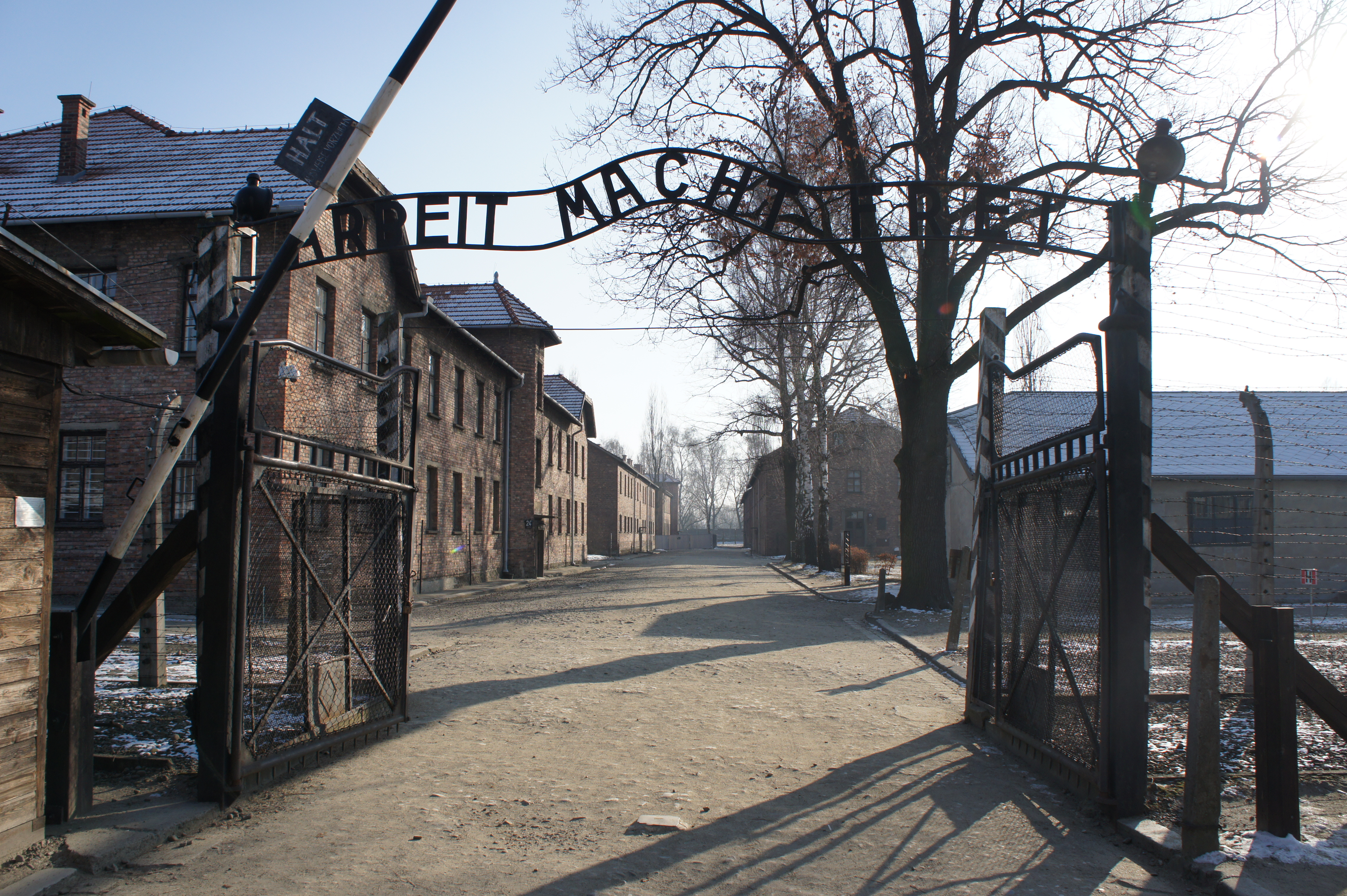 The main entrance to the German death camp Auschwitz I near the town of Oświęcim in Poland. Above the gate is the infamous motto, Arbeit macht frei ("work makes free").